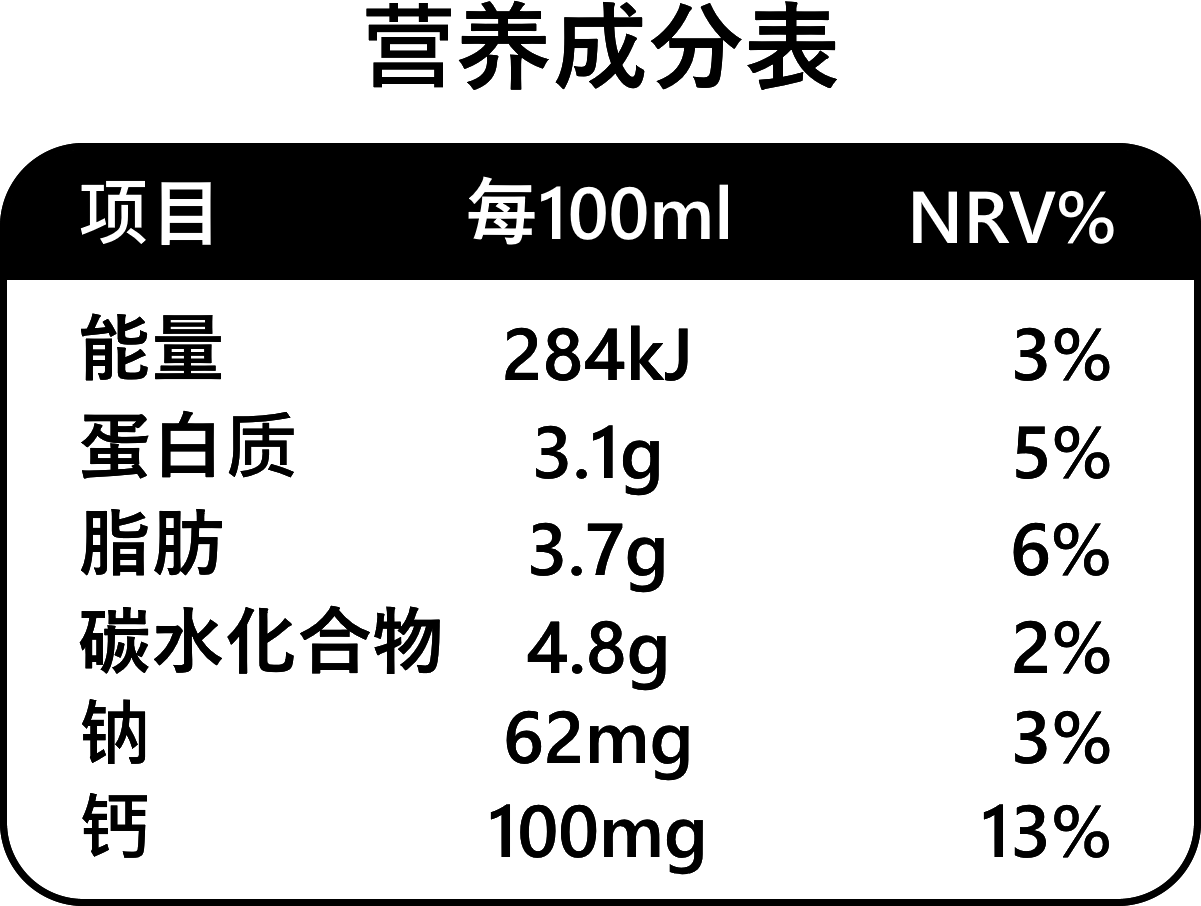 An example of a Chinese nutrition facts label, based on a photograph of one here: I designed the digital version of the label however